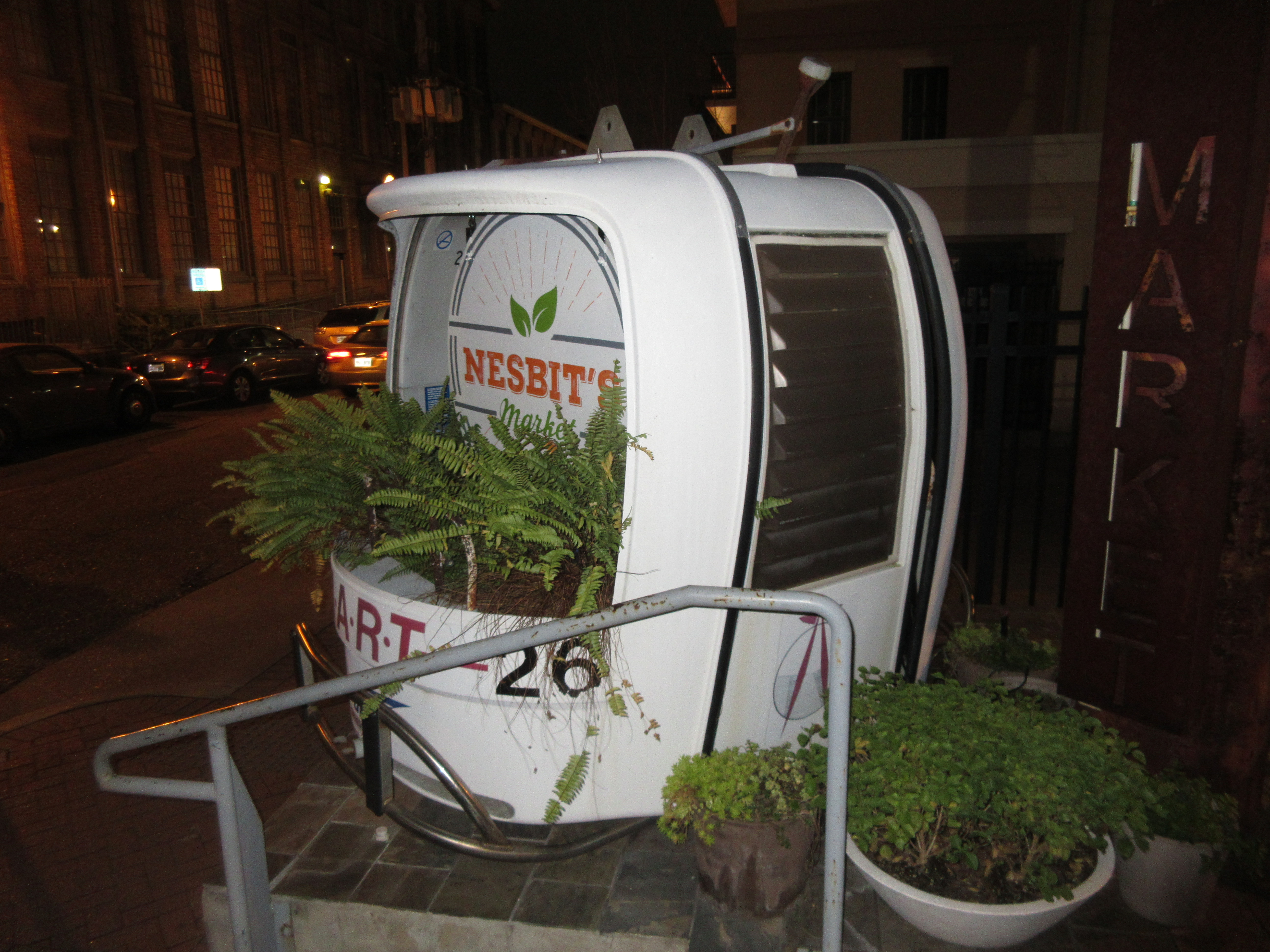 Poeyfarre Street, New Orleans Warehouse District at Night, Jan 2019. Gondola car from Mississippi Aerial River Transit" or "MART", which ran across the Mississippi River 1984-1985. Car now used as decoration.